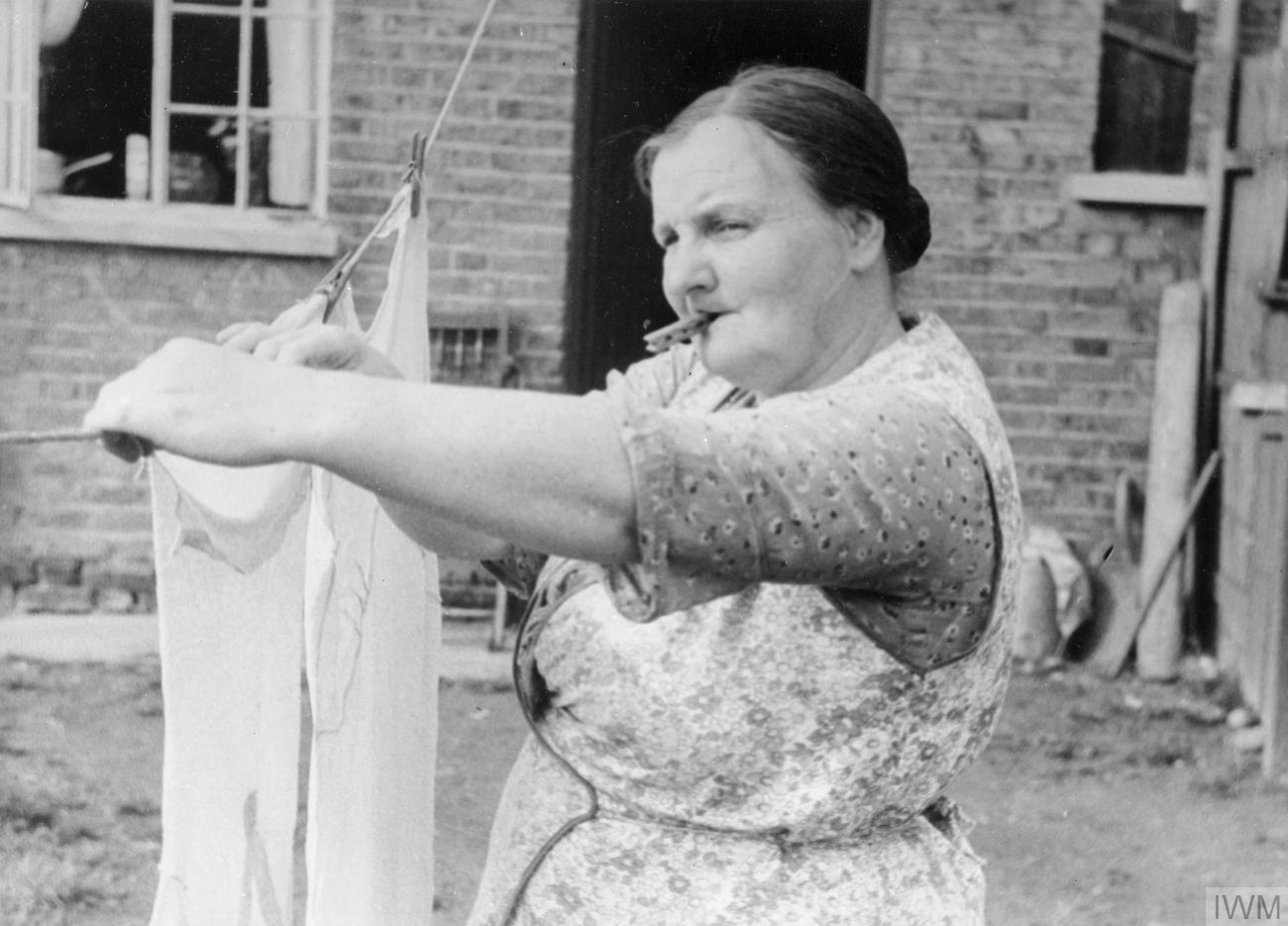 A Working Class Family in Wartime- Every Day Life With the Suter Family in London, 1940 Mrs Suter hangs up washing on the clothes line in the garden of the family home at 44 Edgeworth Road in Eltham, South East London in the summer of 1940. She has a clothes peg in her mouth ready for the next item of clothing.